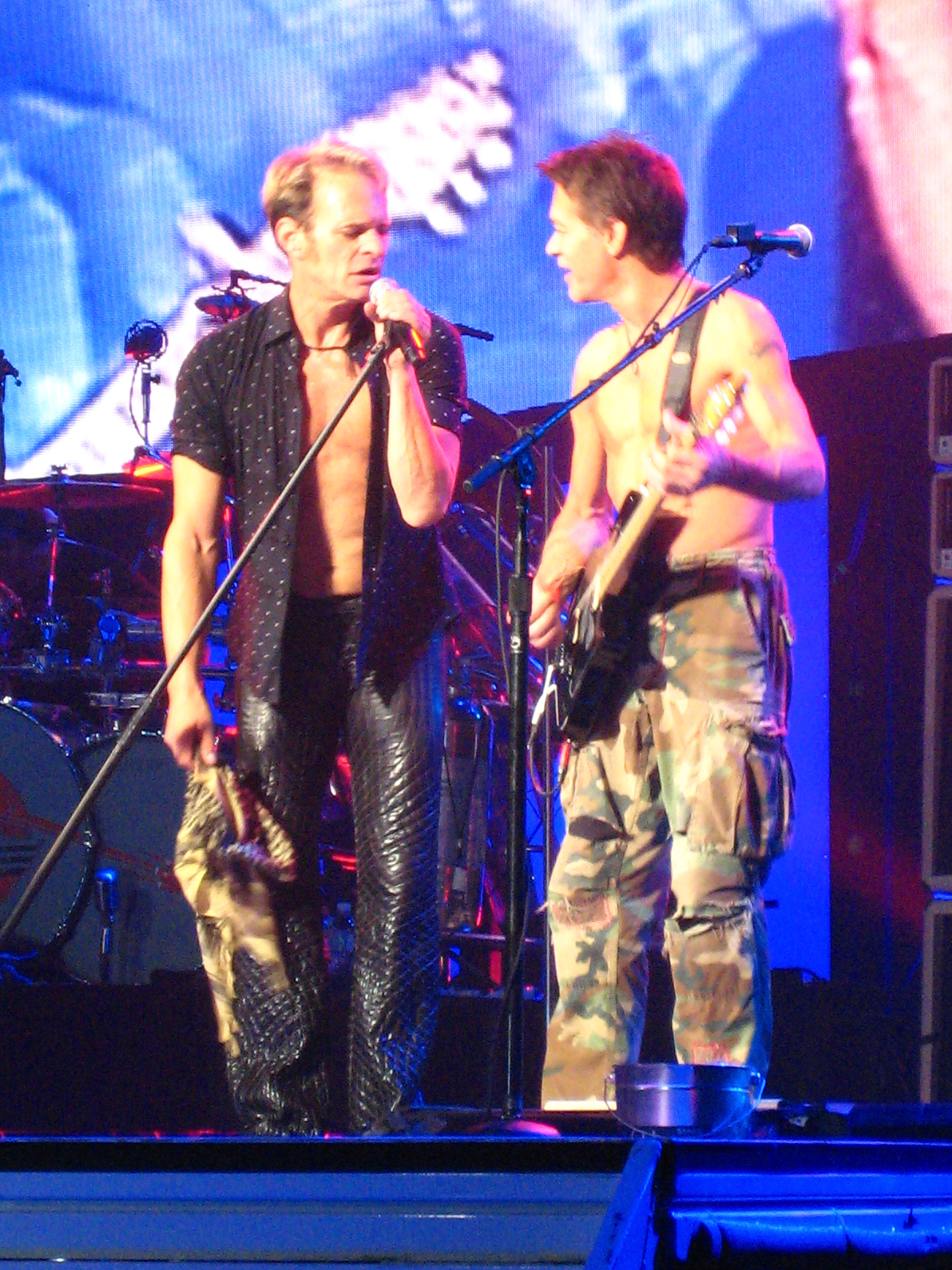 David Lee Roth with Eddie Van Halen Taken at The Van Halen Tour featuring David Lee Roth (lead vocals), Eddie Van Halen (guitars), Wolfgang Van Halen (bass) and Alex Van Halen (drums). The concert was held at Bell Center, Montreal on 10th November, 2007.